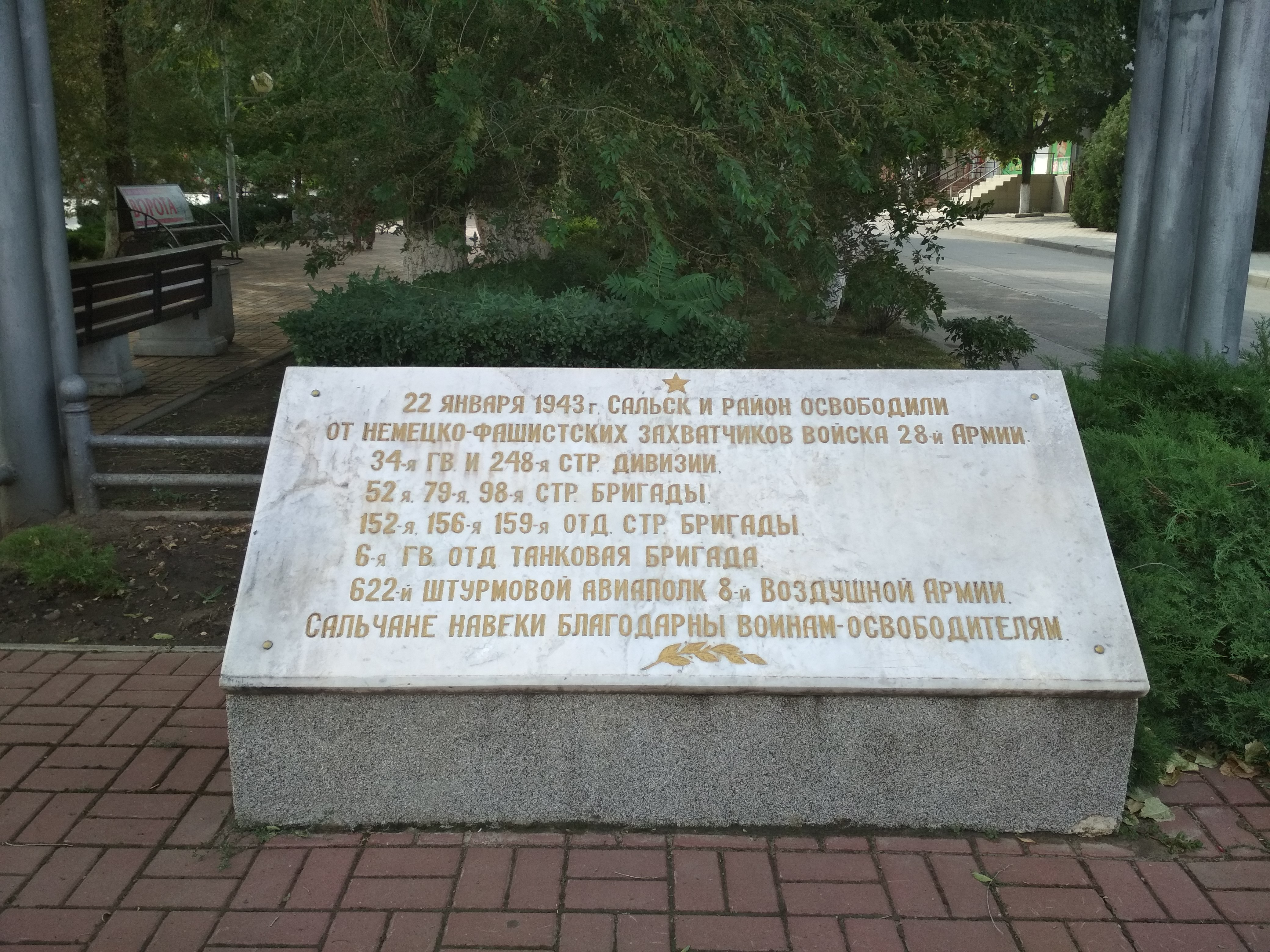 Memorial sign in honor of the liberation of the 28th army of the city of Salsk from the Nazi invaders on January 22, 1943.